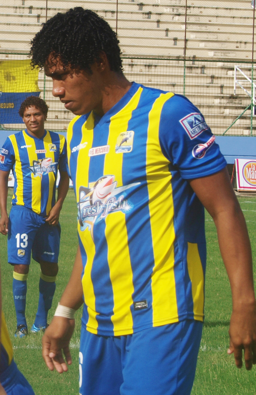 Duval Valverde jugando su primera temporada en Delfín Sporting Club en 2012